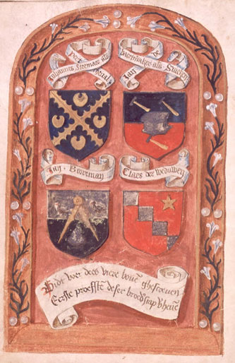 Manuscript regarding the Brotherhood of the Seven Sorrows of the Blessed Virgin Mary, about 1500, names and escutcheons of the first four of the "provosts" of this Brotherhood